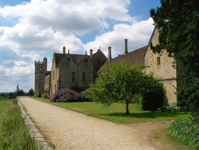 Lacock Abbey